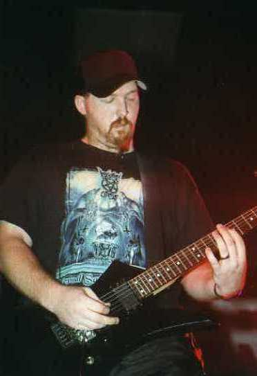 Author = Brian Fischer-Giffin